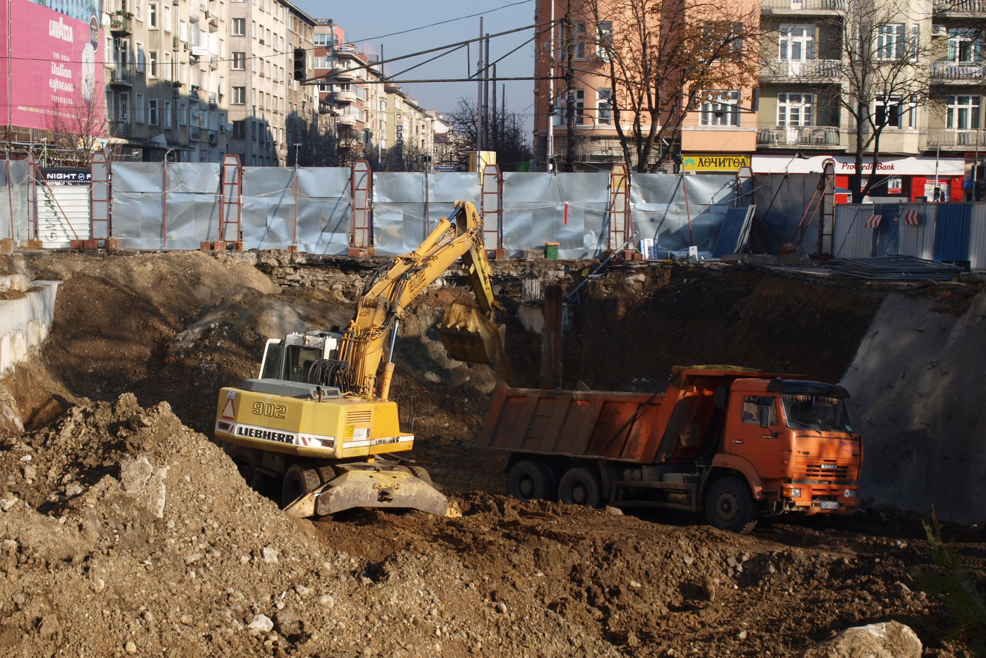 Sofia Metro under construction - Vitoshka Str. at 30 Oct. 2010.